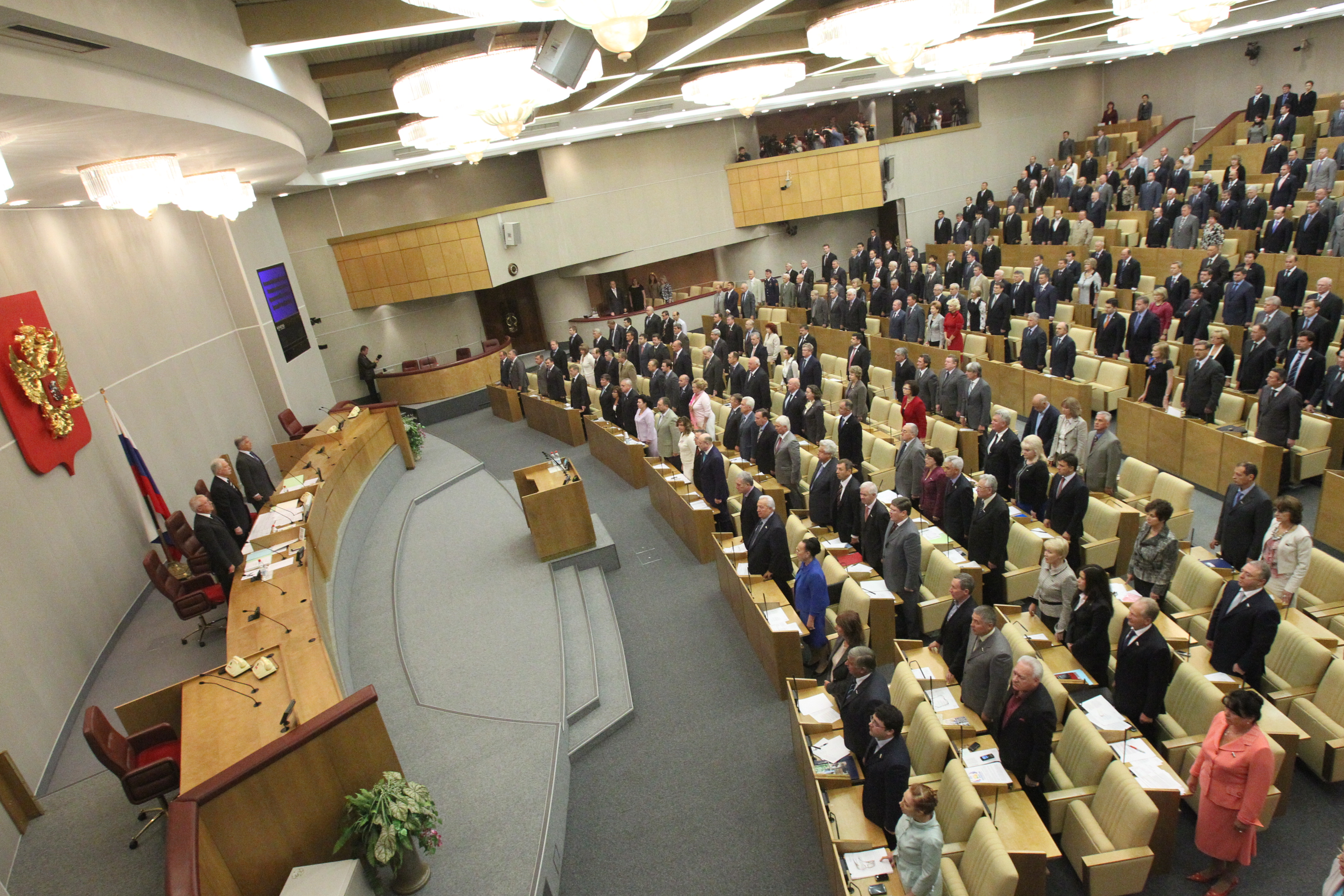 A photo of Hall of Plenary Sessions in State Duma, 2011